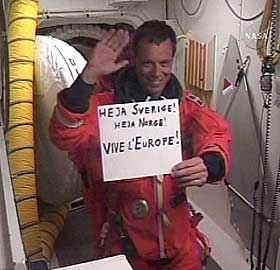 Christer Fuglesang greets Sweden, Norway and Europe as he enters Discovery.